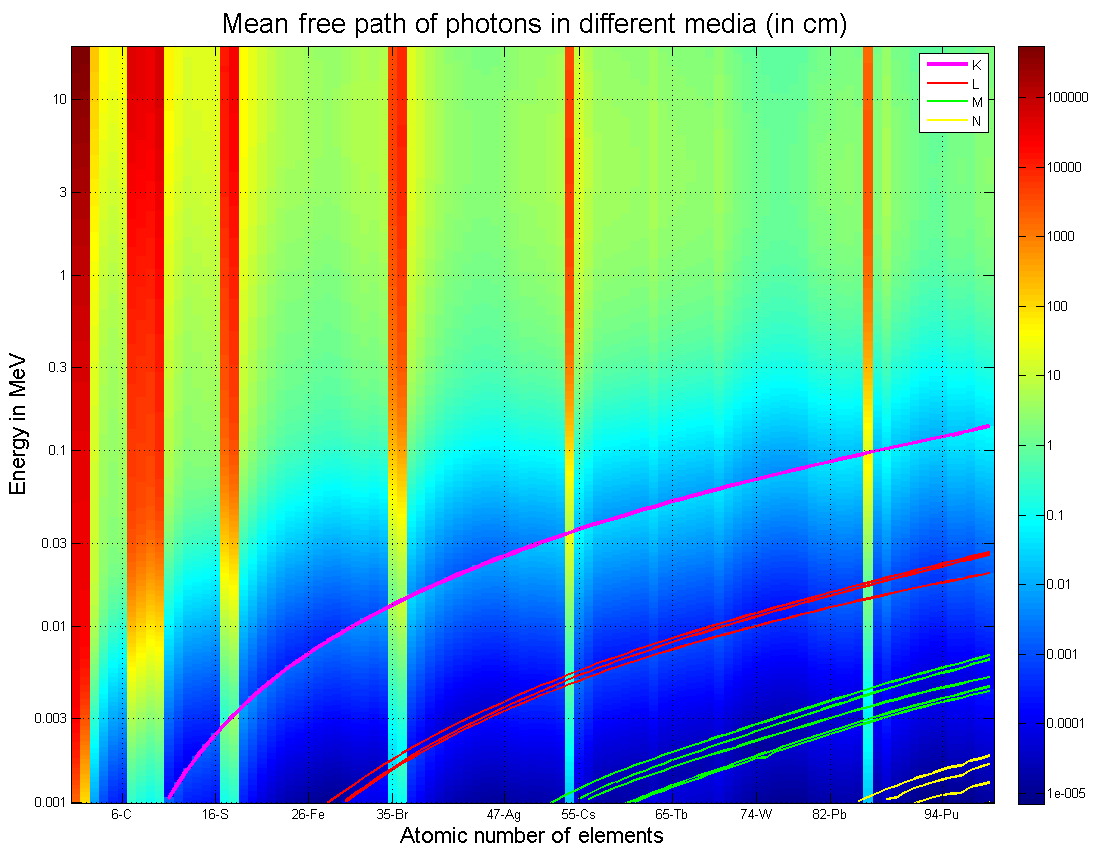 Mean Free Path in cm, for photons in energy range from 1 keV to 20 MeV for Elements Z = 1 to 100. Based on data from [1]. The discontinuities are due to low density of gas elements. Six bands correspond to neighborhoods of six noble gases. Also shown are locations of photons absorption edges (and not Compton edges as mentioned in the comments from the Matlab code).